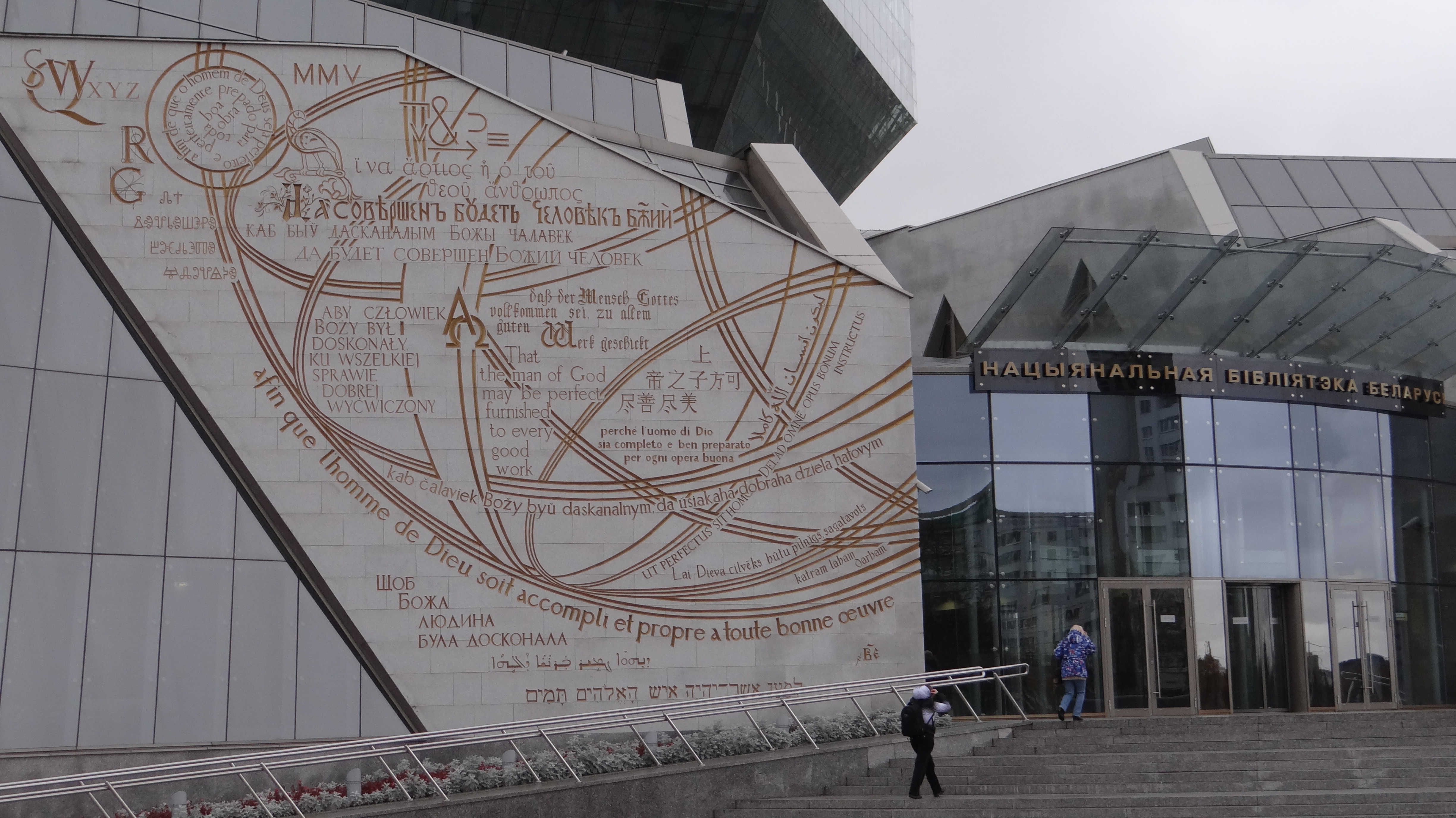 Pyershamayski District, Minsk, Belarus